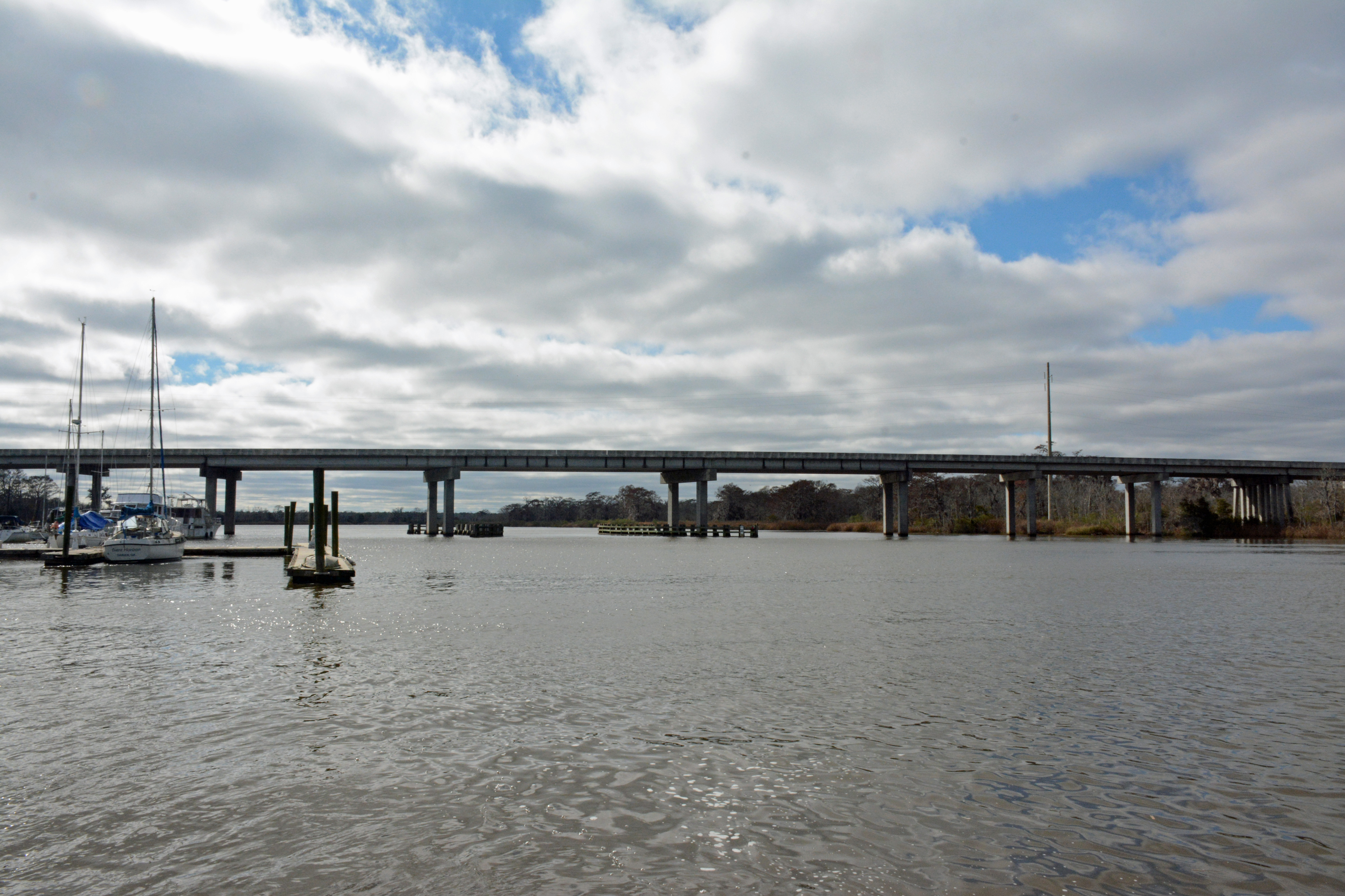 Altamaha River on the border of McIntosh and Glynn Counties, Georgia, USA. The bridge is over US Highway 17. Champney Island is to the right.